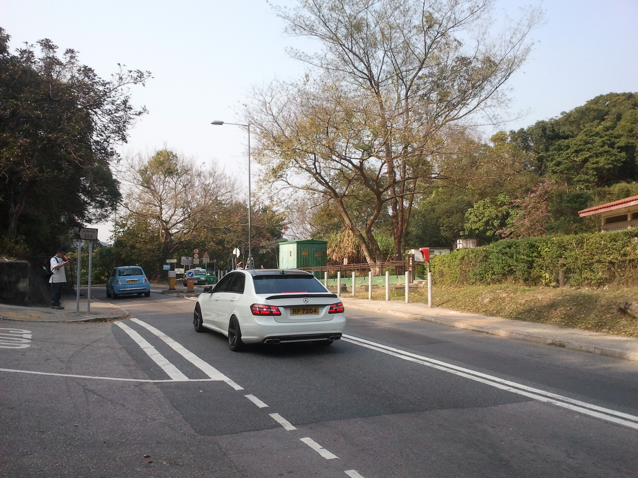 Sai Sha Road, Shui Long Wo crossing.jpg